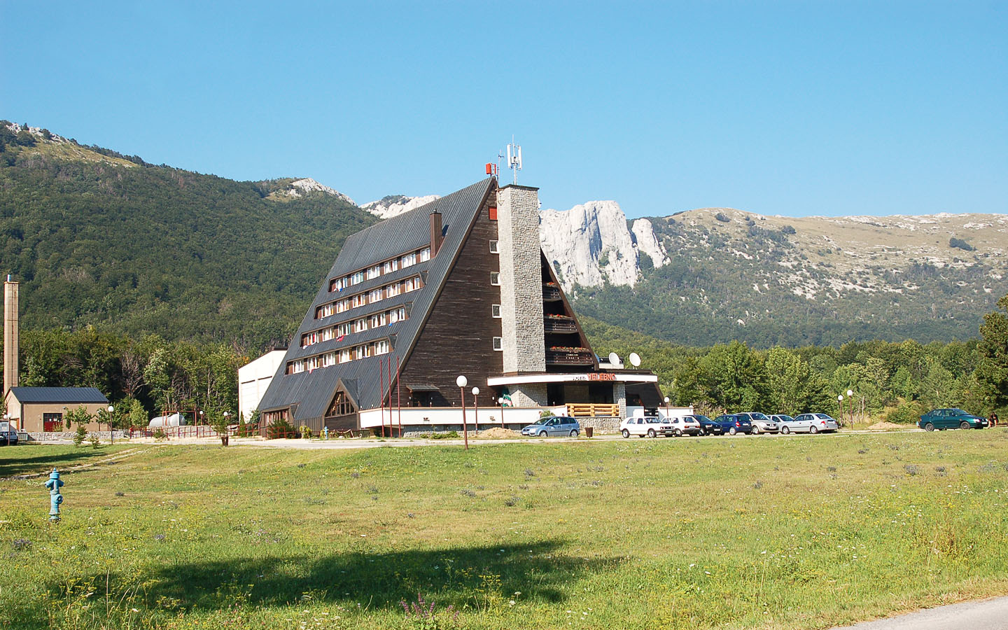 Hotel Velebno, Baške Oštarije.